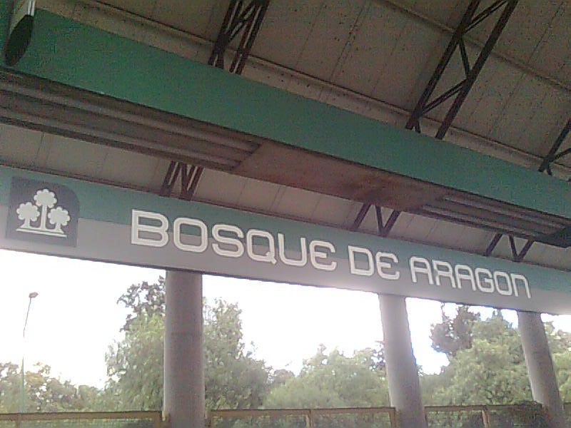 Visited for roundtrip From Ciudad Azteca to Buenavista